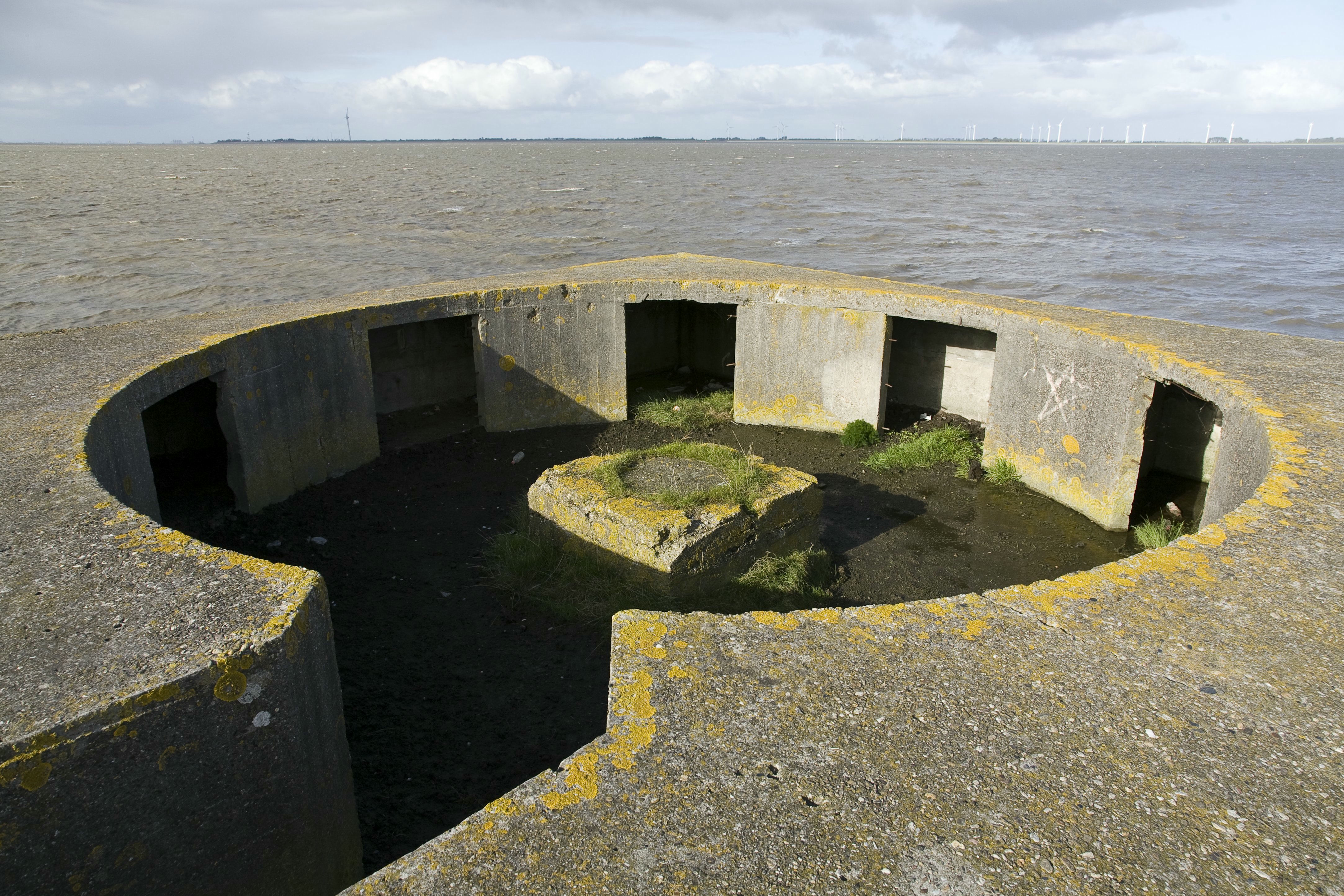 Termunten Battery: Remains of an antiaircraft gun position built by the Germans in the Second World War (Note: Publication: TRAP Appingedam and Delfzijl (Cultural Historical Routes in Netherlands - 59))